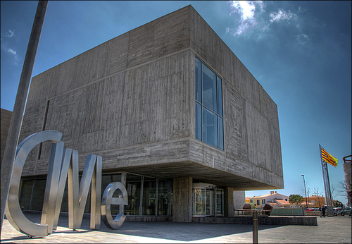 Consell Insular of Minorca